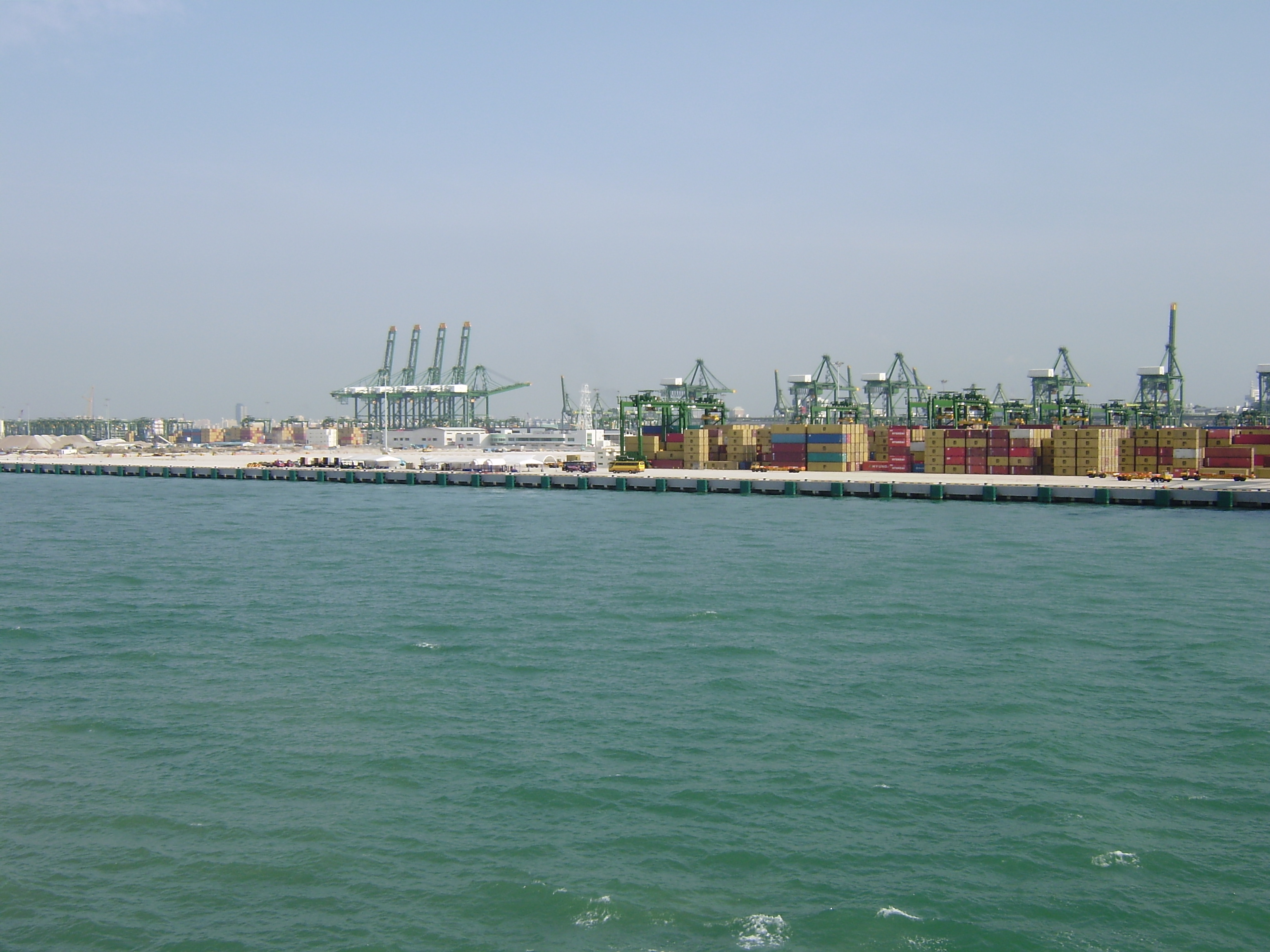 View of the Pasir Panjang Container Terminal, Singapore, from the sea.